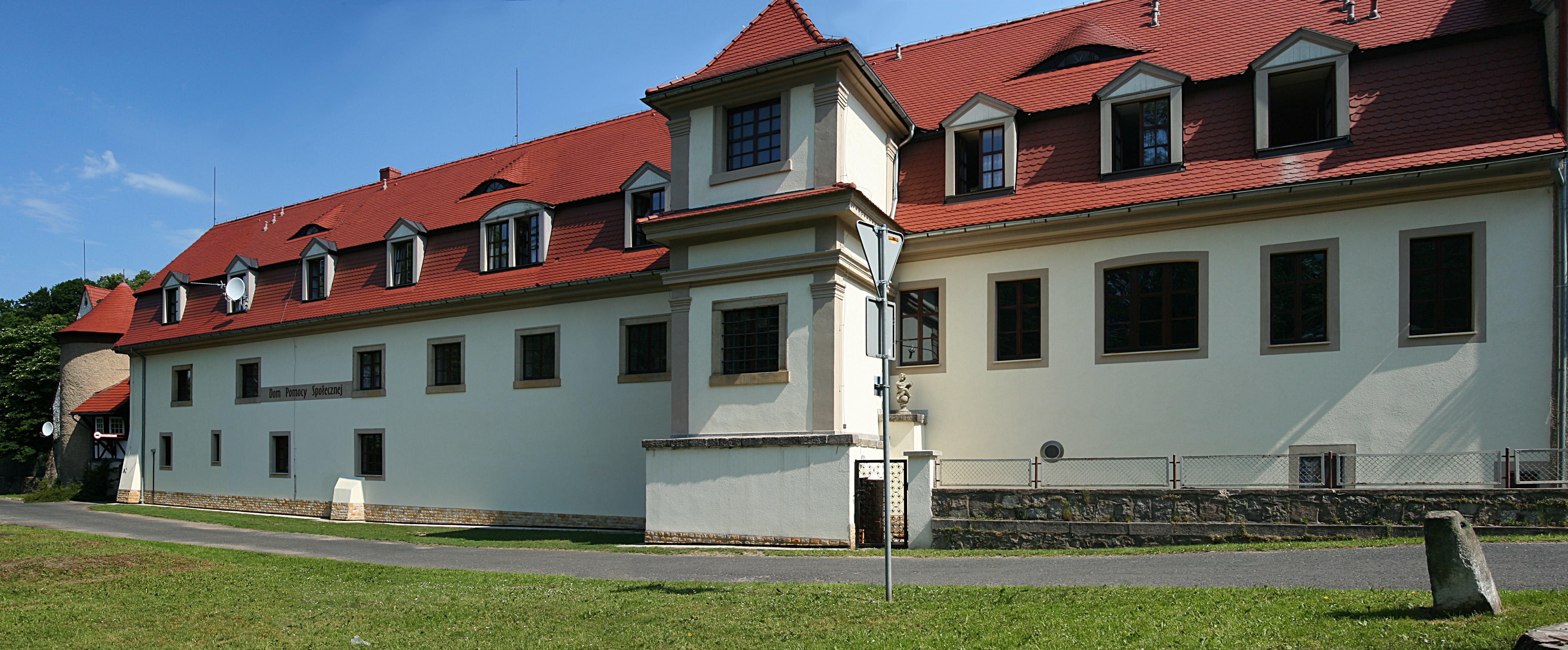 Social help building in Janowice Wielkie, Lower Silesia, Poland.